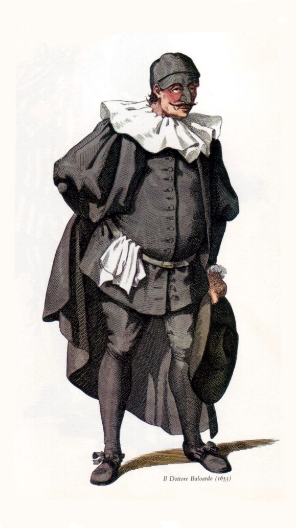 Dr Balanzone year 1653